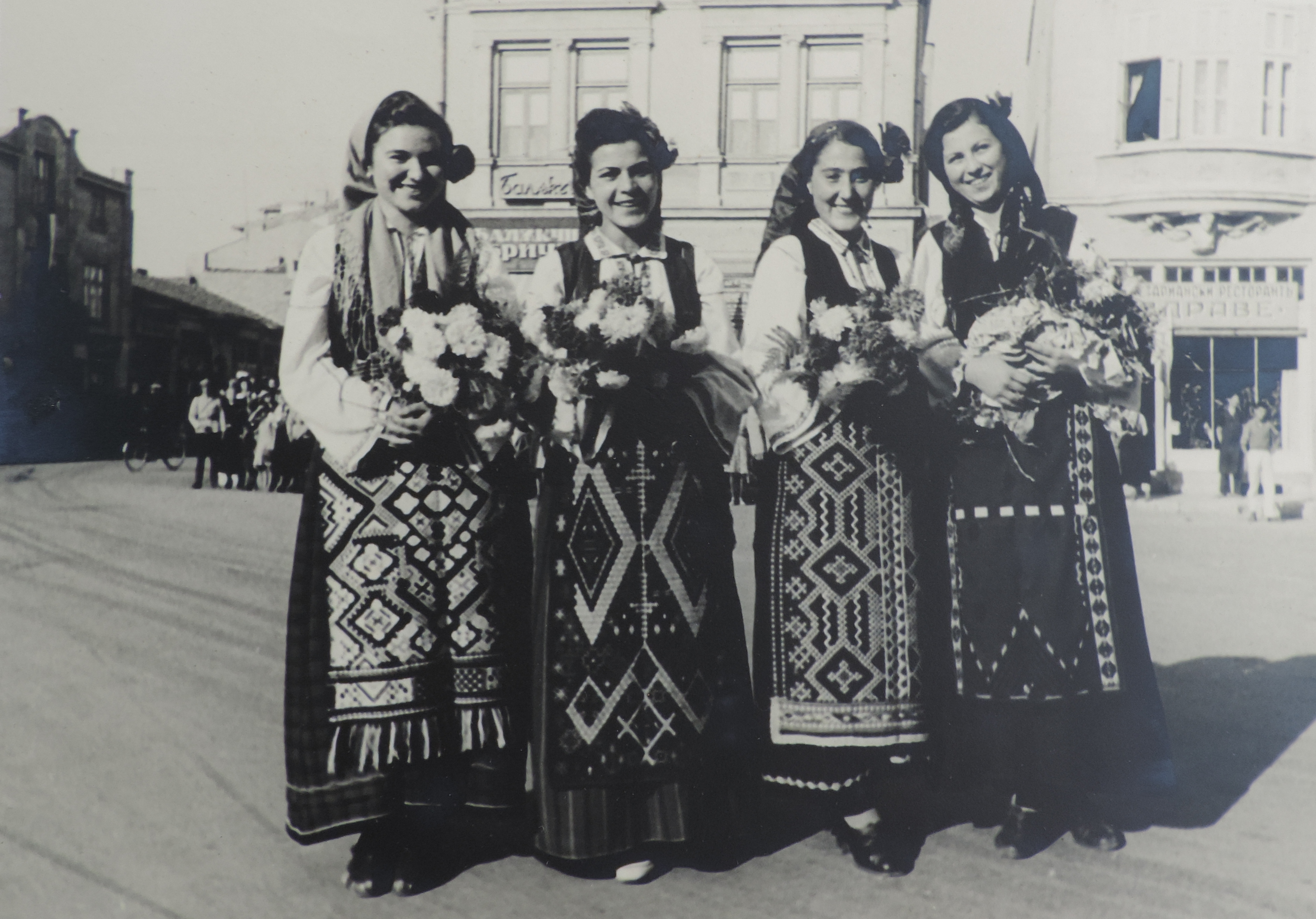 Photo of South Dobruja, 1940.